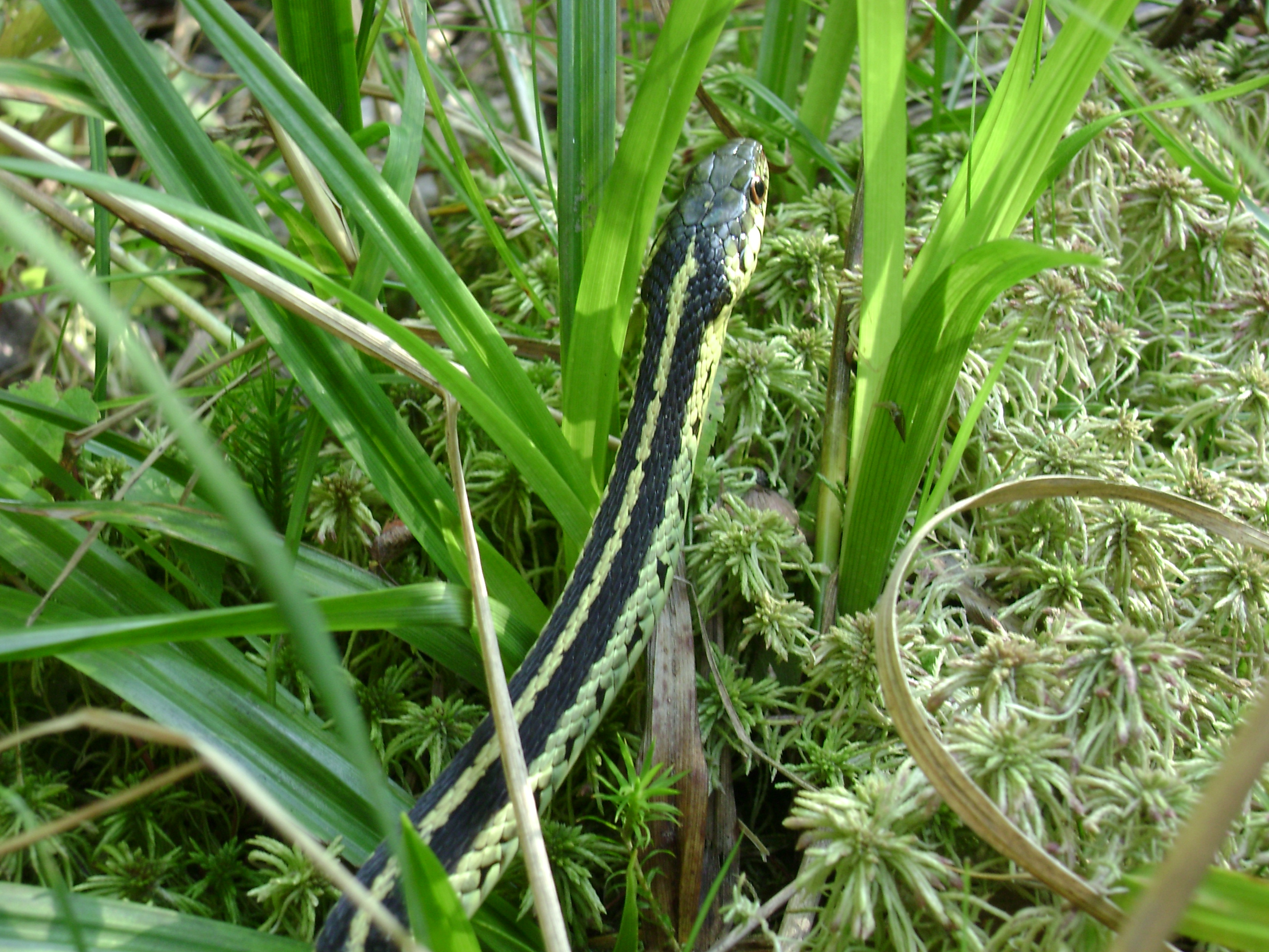 Common Garter Snake - Thamnophis sirtalis - (Sorel, Qc, Canada)